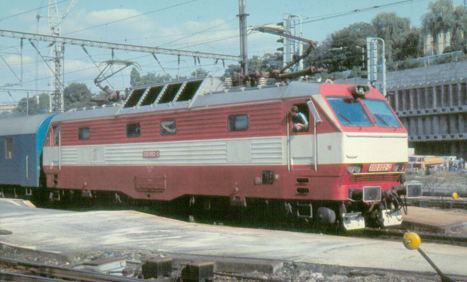 ČSD 350.002 at Prague main station